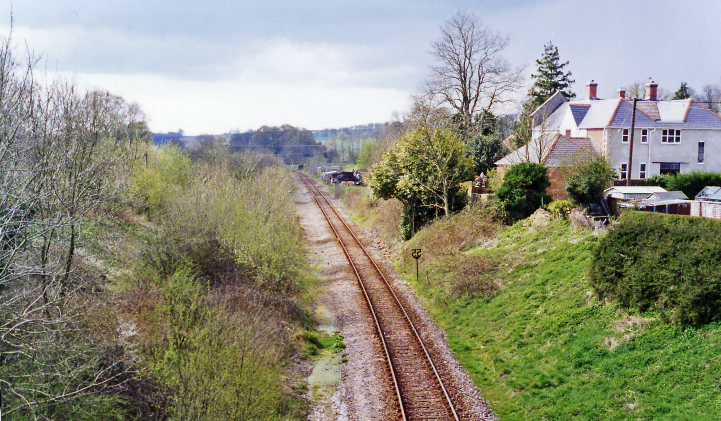 Site of Evershot station, 1995. View southward, towards Dorchester and Weymouth: ex-GWR (London, Bristol etc.) - Westbury - Yeovil - Dorchester - Weymouth main line. The station was closed 3/10/66 and the line singled about that time. This was the summit of a stiff climb in both directions.